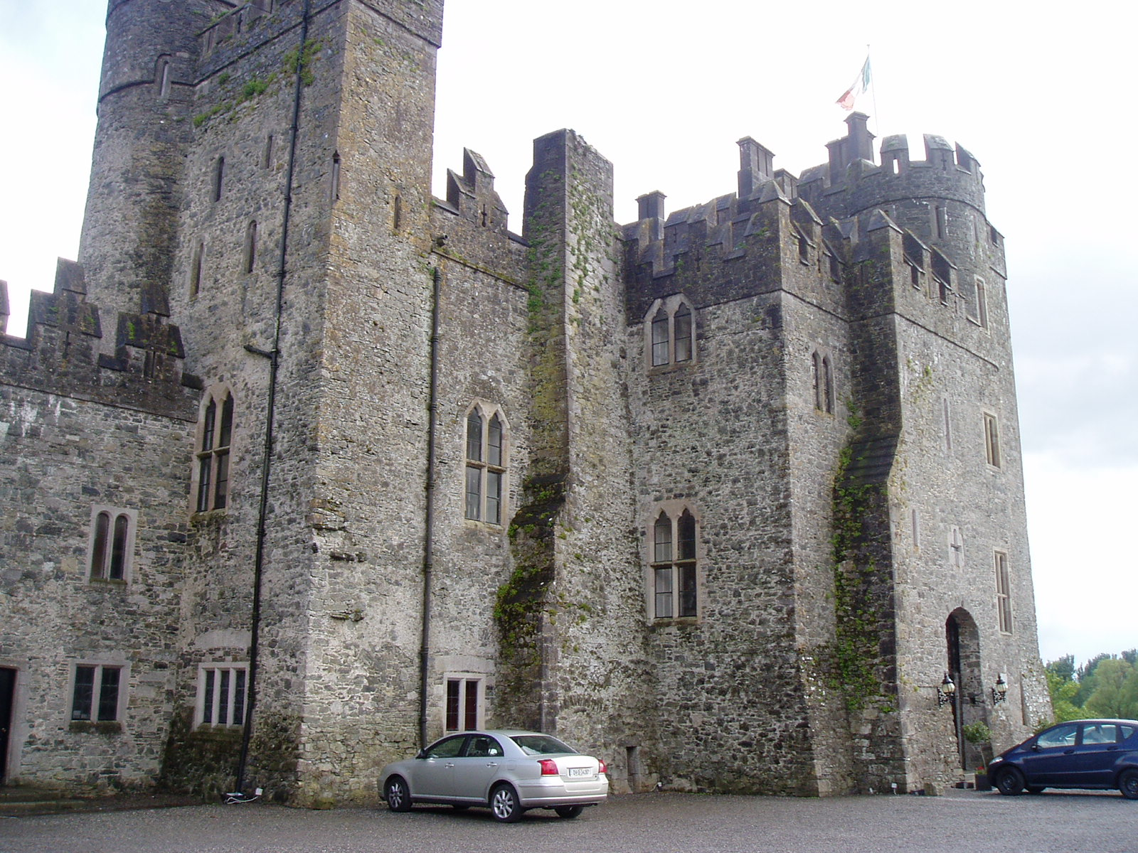 Front left side of Kilkea Castle, Castledermot, County Kildare, Ireland